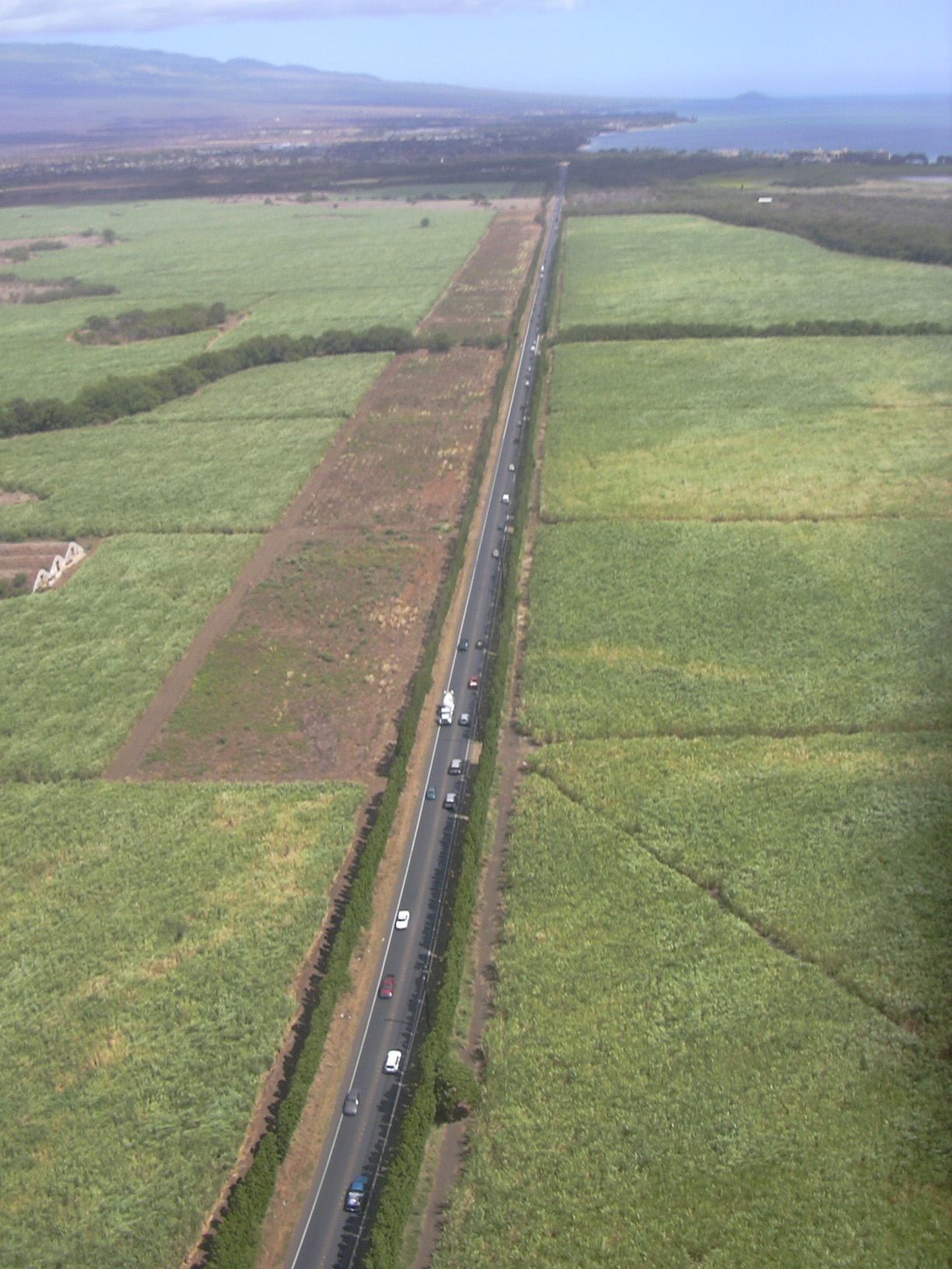 Saccharum officinarum (Mokulele Hwy widening). Location: Maui, Puunene